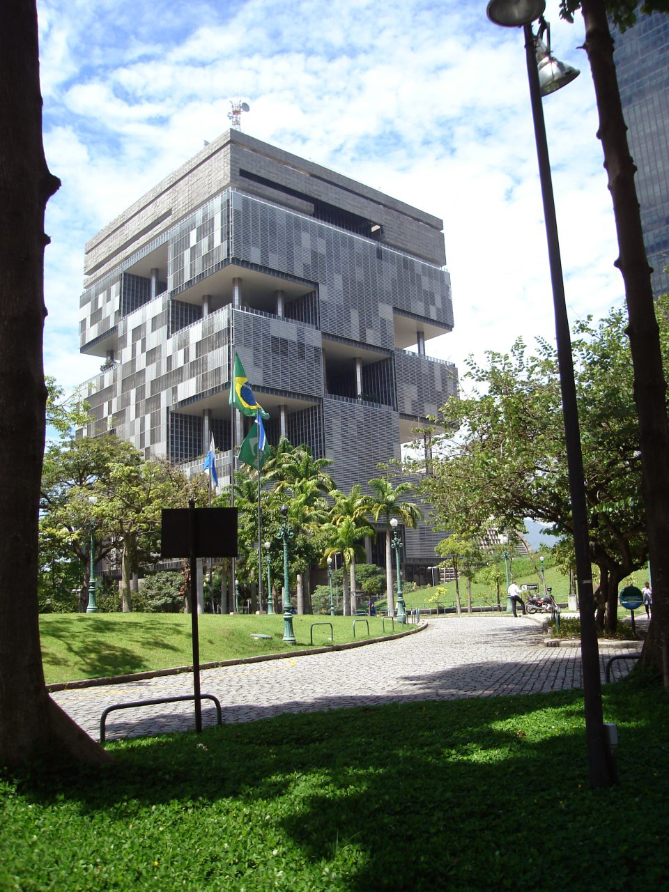 Petrobras building in Rio de Janeiro downtown, Brazil